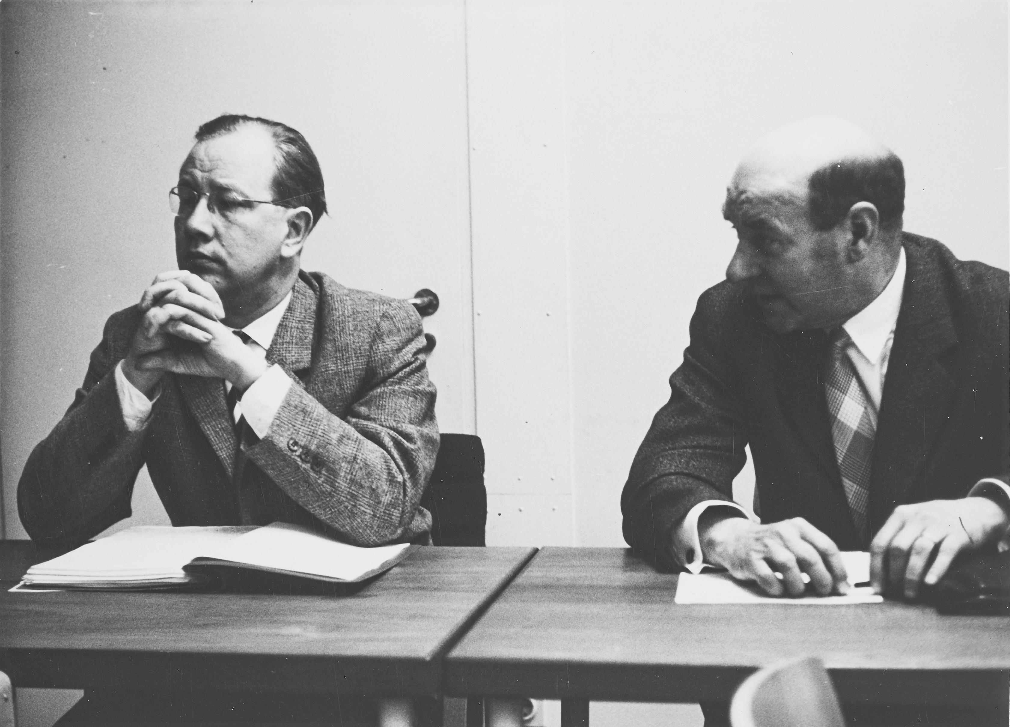 Two professors of Helsinki University — Jan-Magnus Jansson and Lauri Aadolf Puntila — examining the licentiate thesis of Mauno Jääskeläinen.